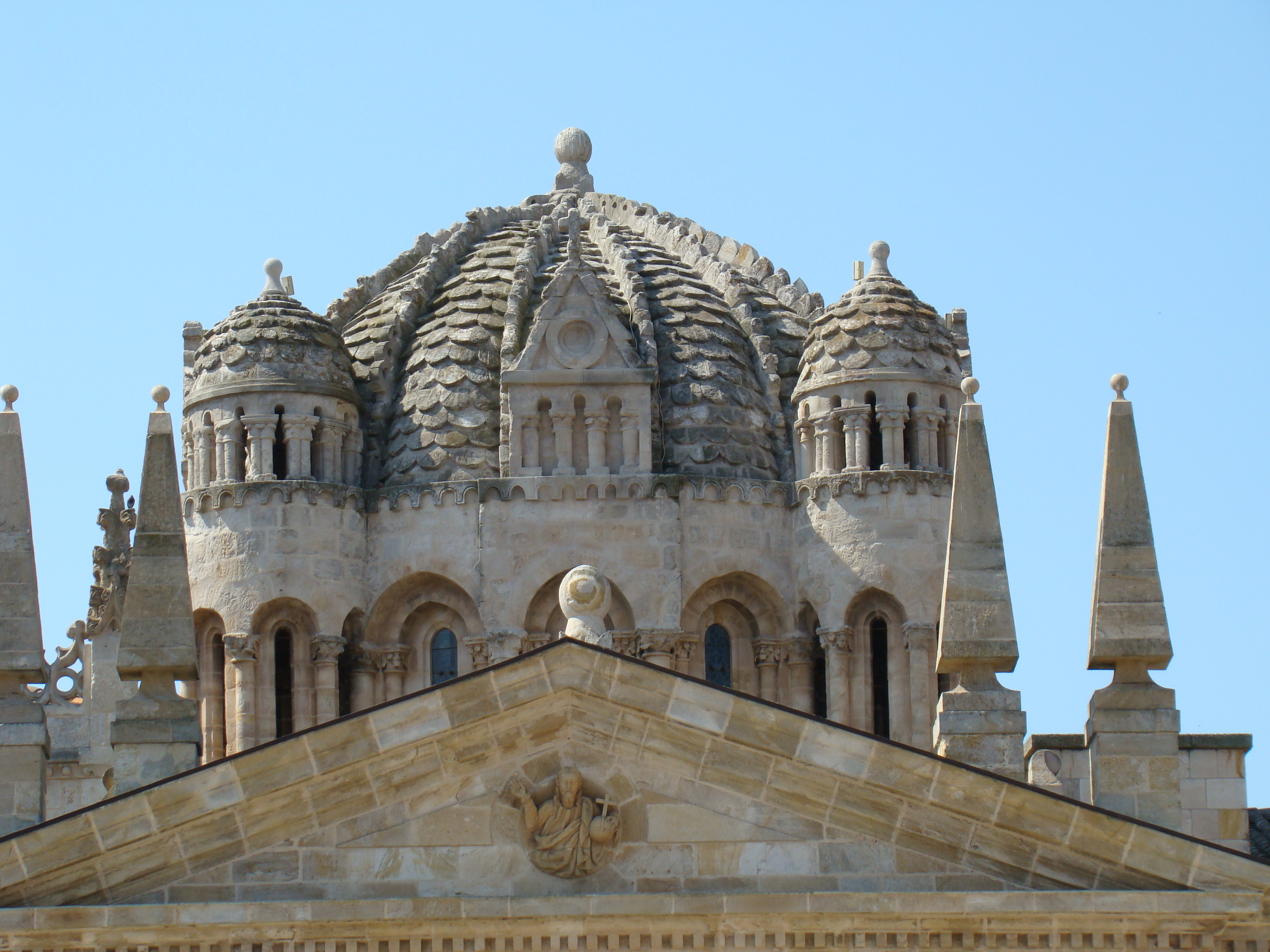 Zamora cathedral. Romanesque cupule of stone with tiled decorations.